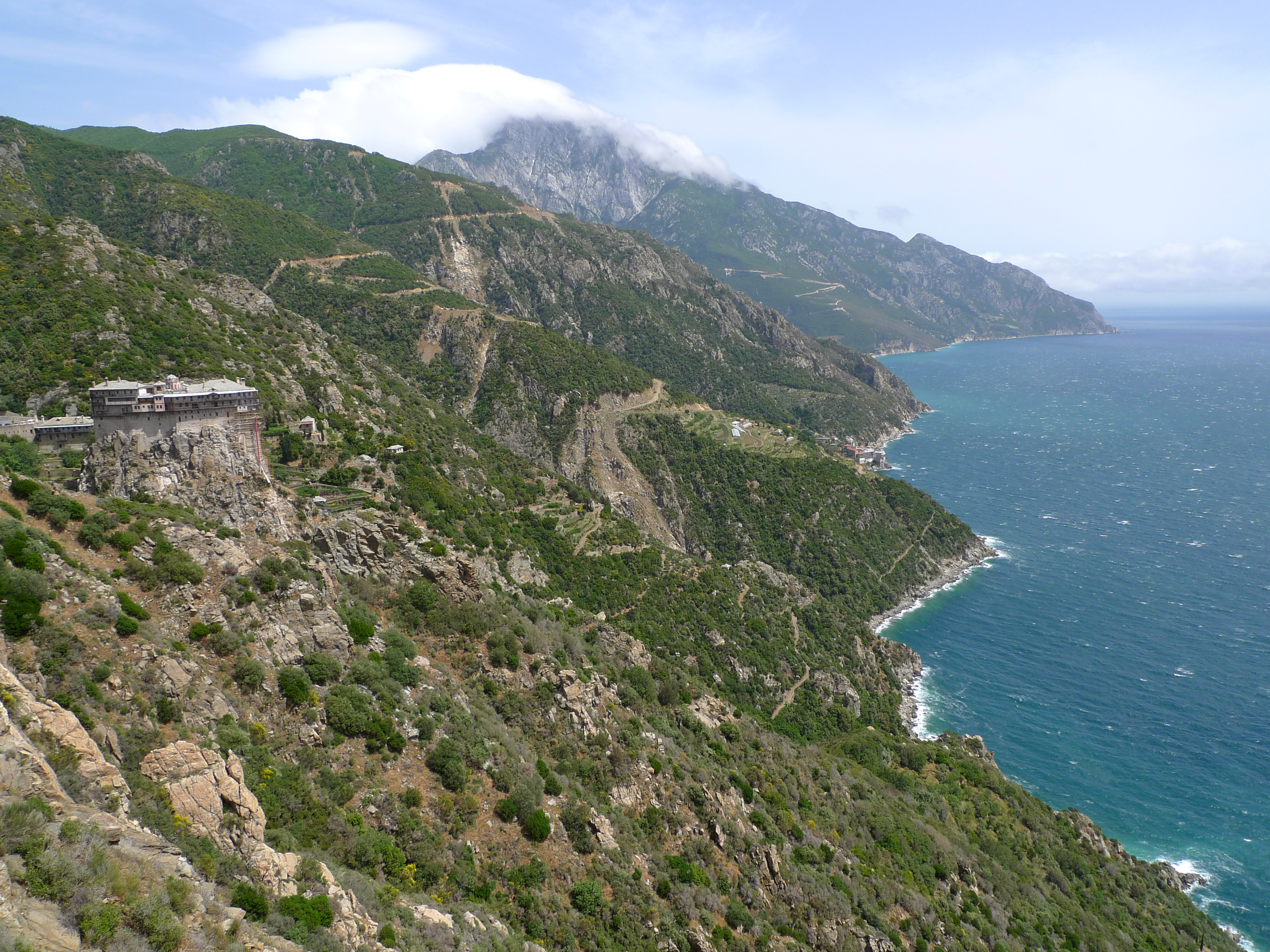 This is a photography of Natura 2000 protected area with ID GR1270003